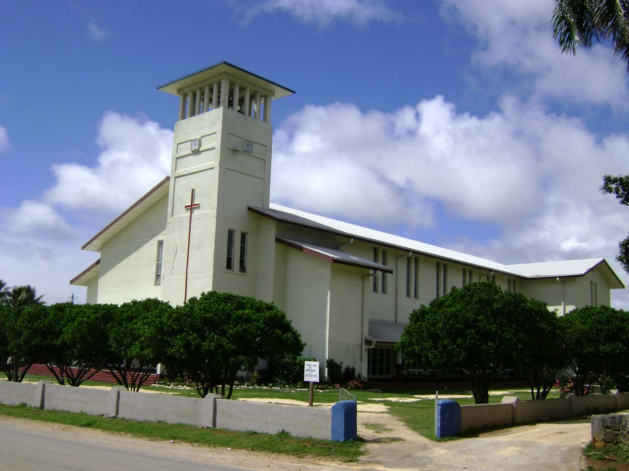 Saione, the church of the king, the main Free Weslyean curch of Kolomotuʻa, Tonga